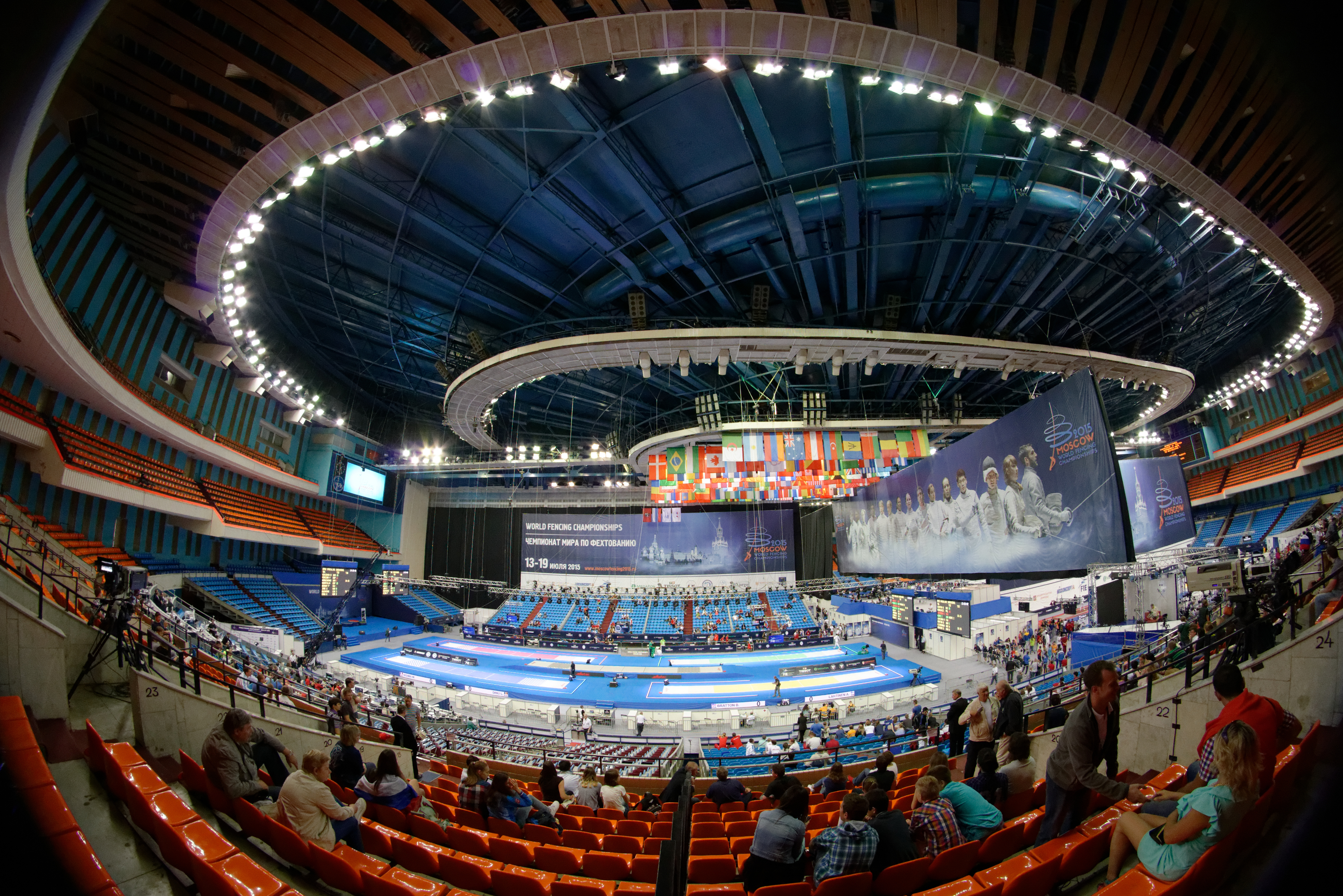 A view of the Olympic Stadium in Moscow during the 2015 World Fencing Championships on 15 July 2014: coloured pistes for the finals.